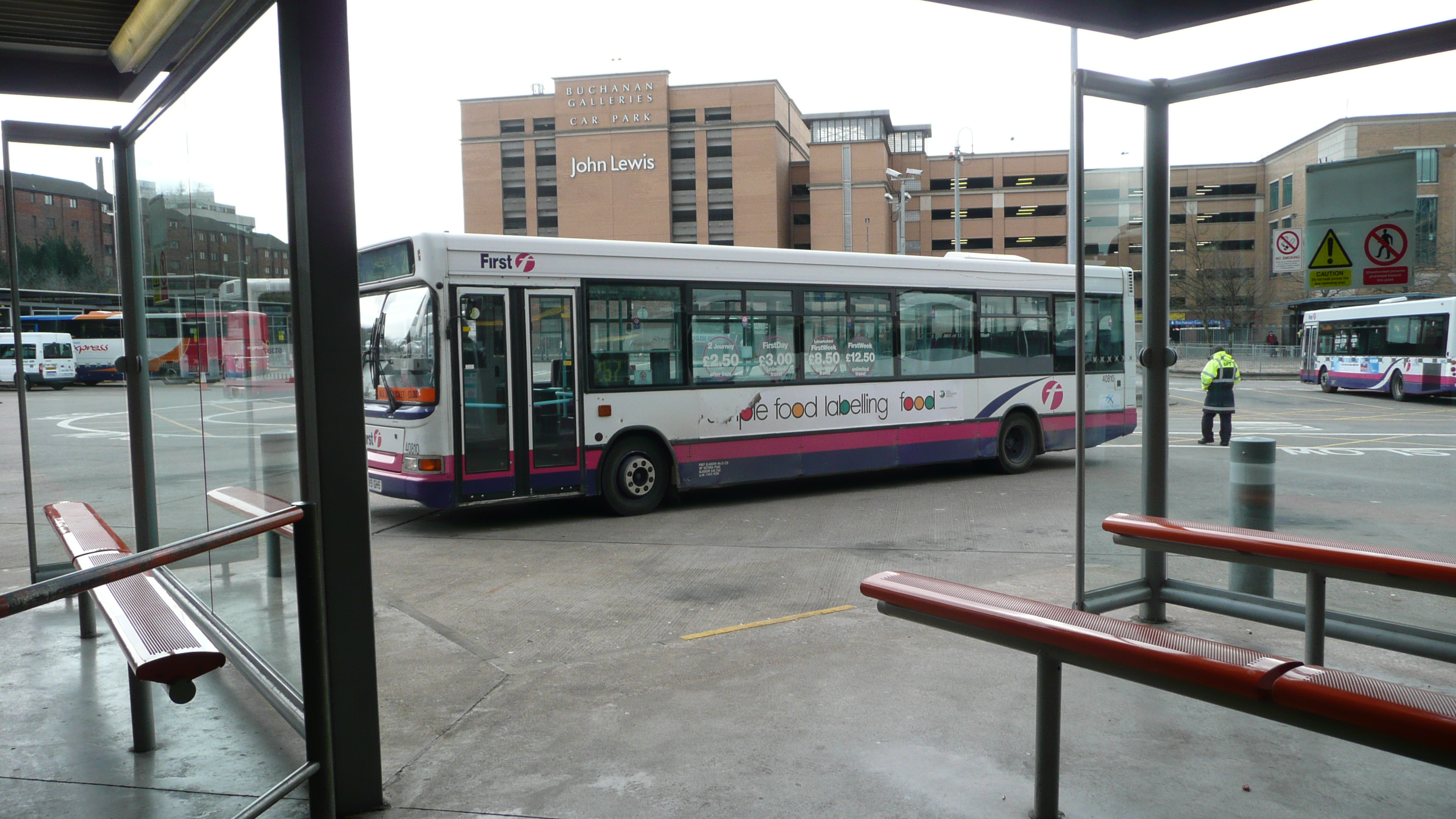 A First Glasgow Dennis Dart in Buchanan bus station.